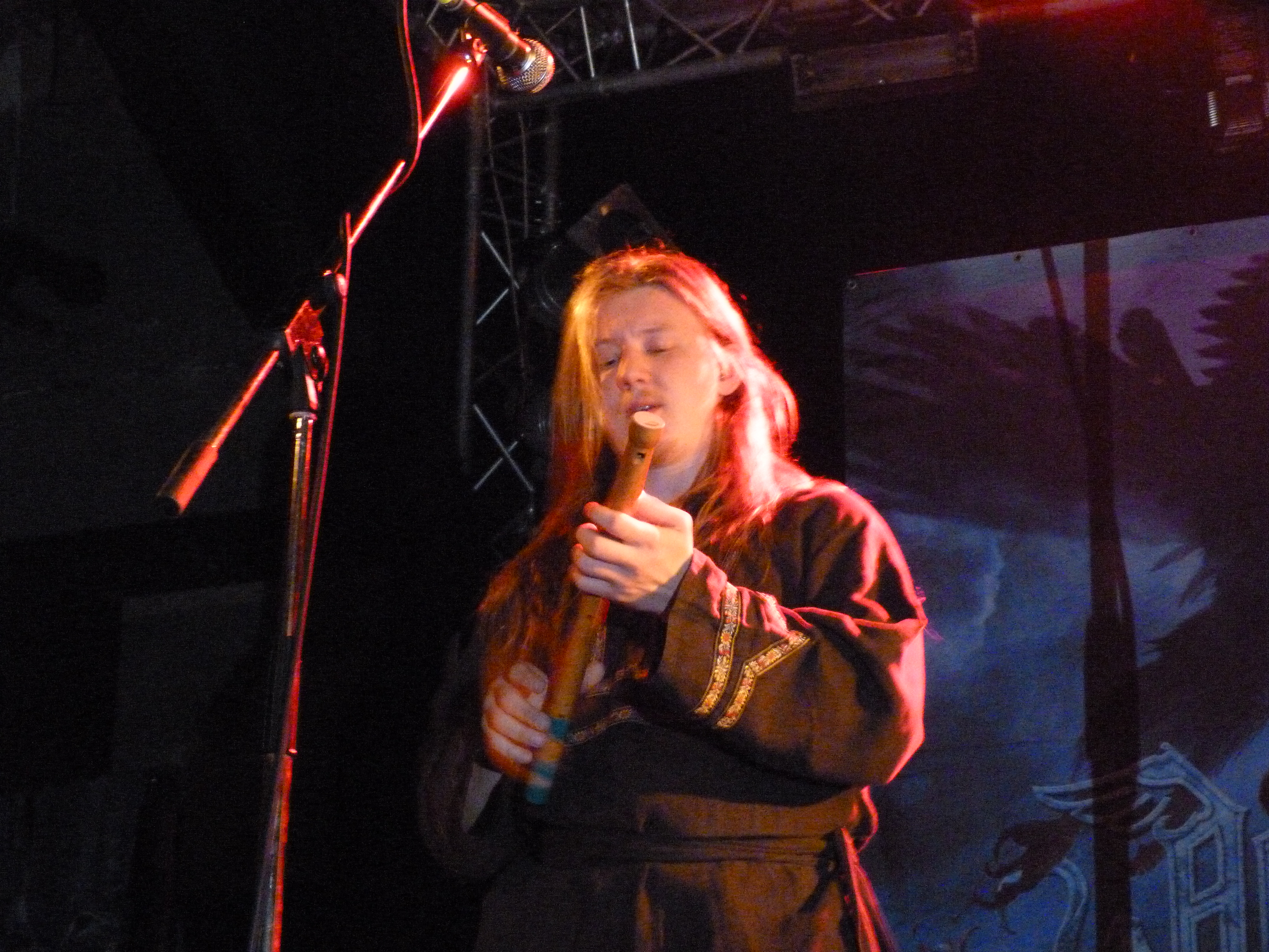 Live on the 10th of December 2014. Budapest, Club 202. The beginnings of ARKONA date back to 2002, when members of local pagan community "Vyatichi", Masha "Scream" Arhipova and Alexander "Warlock" Korolyov, decided to form a band that mirrored their individual philosophy and musical tastes. The band, at the time still known as Hyperborea, comprised Masha "Scream" Arhipova (vocals), Eugene Knyazev (guitar), Eugene Borzov (bass), Ilya Bogatyryov (guitar), Alexander "Warlock" Korolyov (drums), and Olga Loginova (keyboard), but it wasn’t until February 2002 that ARKONA surfaced from the depths of Russia’s underground scene. ARKONA soon decided to record several of their pagan/folk songs for their first demo. The recording took place at CDM-Records Studio in December 2002. Forrás: ©© Derzsi Elekes Andor, Budapest, 2014, Published in the Metapolisz DVD line. You are authorised to use this photo under Creative Commons – even for commercial, for profit purposes. The vid must be attributed to Derzsi Elekes Andor. All of the photos and vids in the Metapolisz DVD line are under Creative Commons and can be used even for commercial – for profit – purposes. Recommended Citation Derzsi Elekes Andor: Metapolisz DVD line